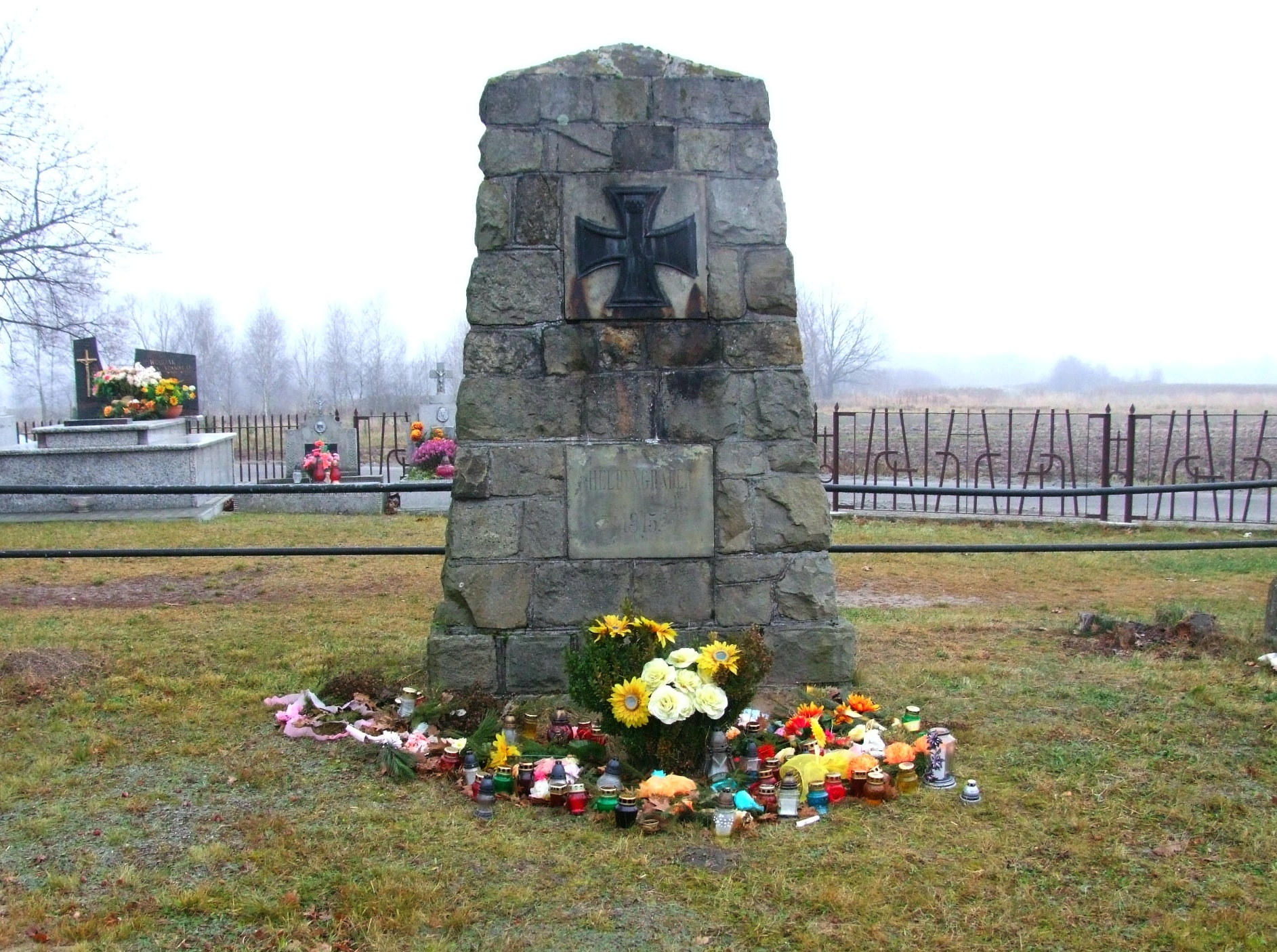 World War I Cementeries nr 270 in Bielcza